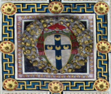 Frescoes on the ceiling of the Piccolomini Library in Siena Cathedral, by Pinturicchio. Painted 1502-1507 CE.